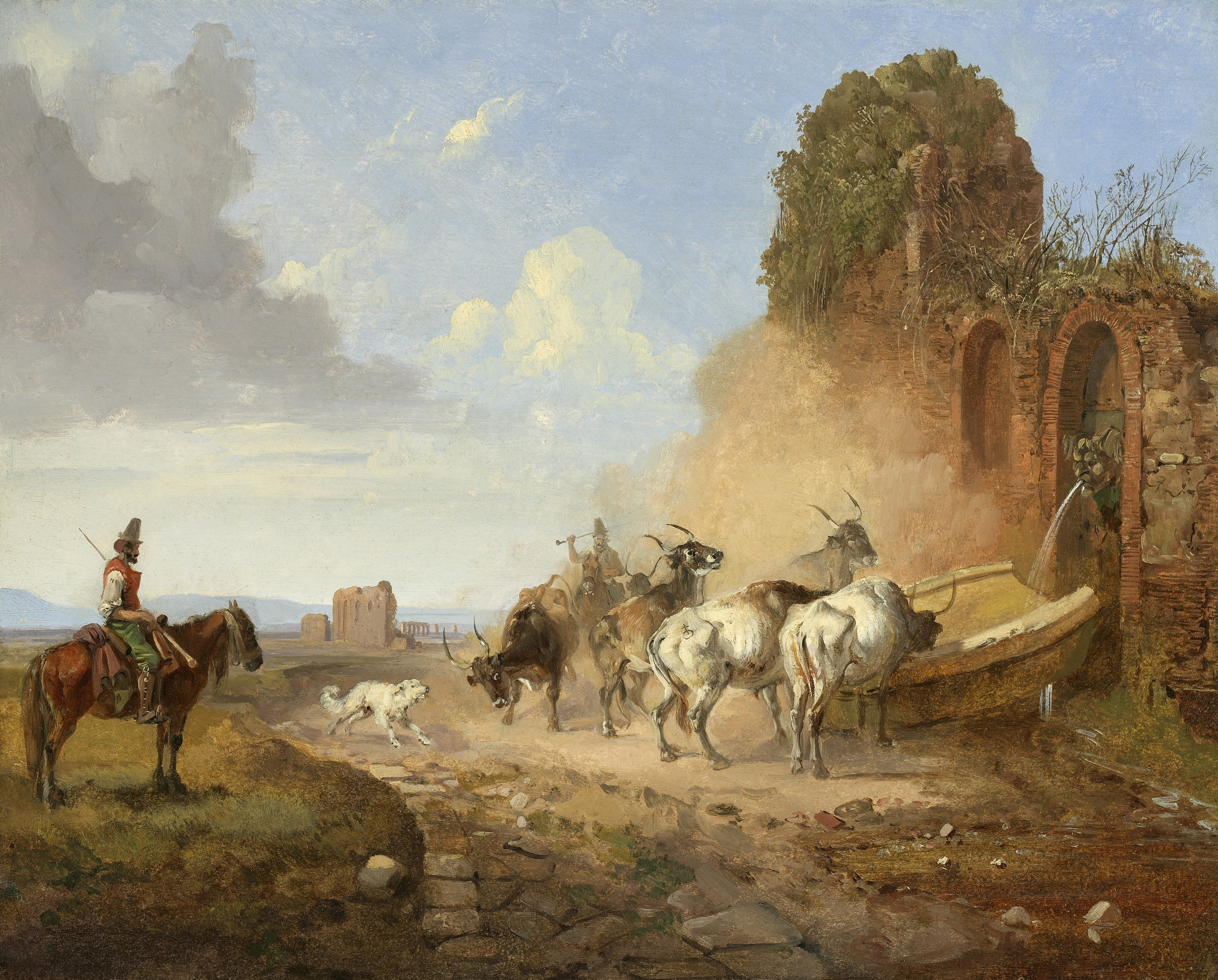 Cattle Watering at a Fountain on the Via Appia Antiqua, the Ruins of an Aqueduct in the Background